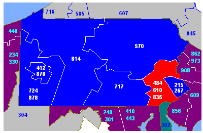 Map of Pennsylvania area codes in blue with A/C 484 in red.